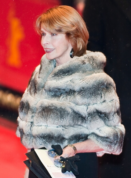 Austrian actress Senta Berger arriving at the opening of the 60th Berlin International Film Festival.